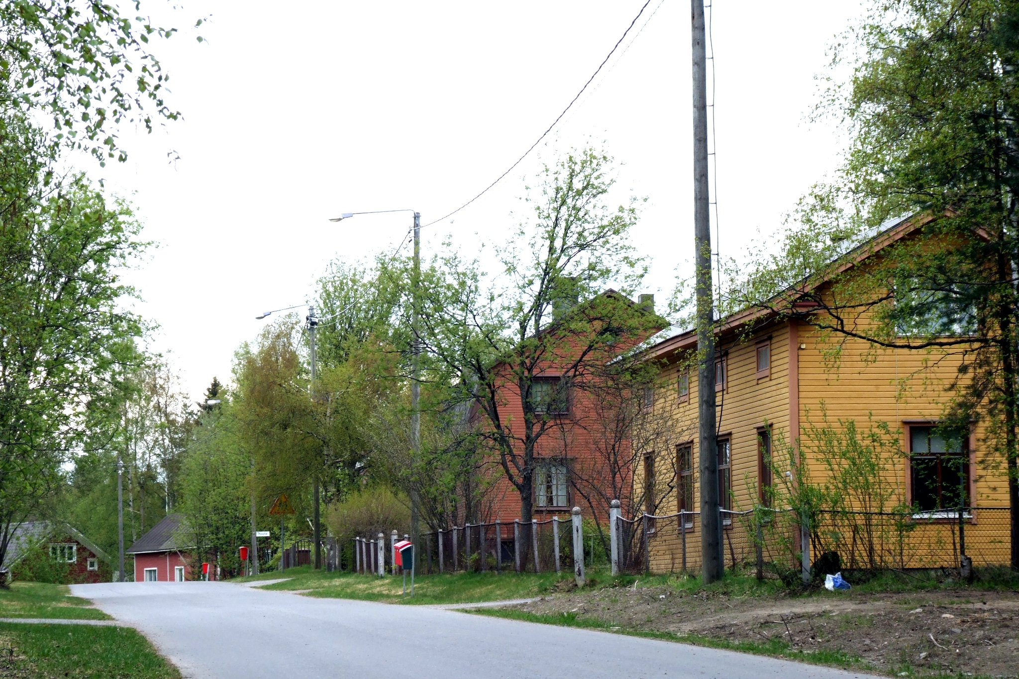 Isko neighbourhood in Oulu, Finland.